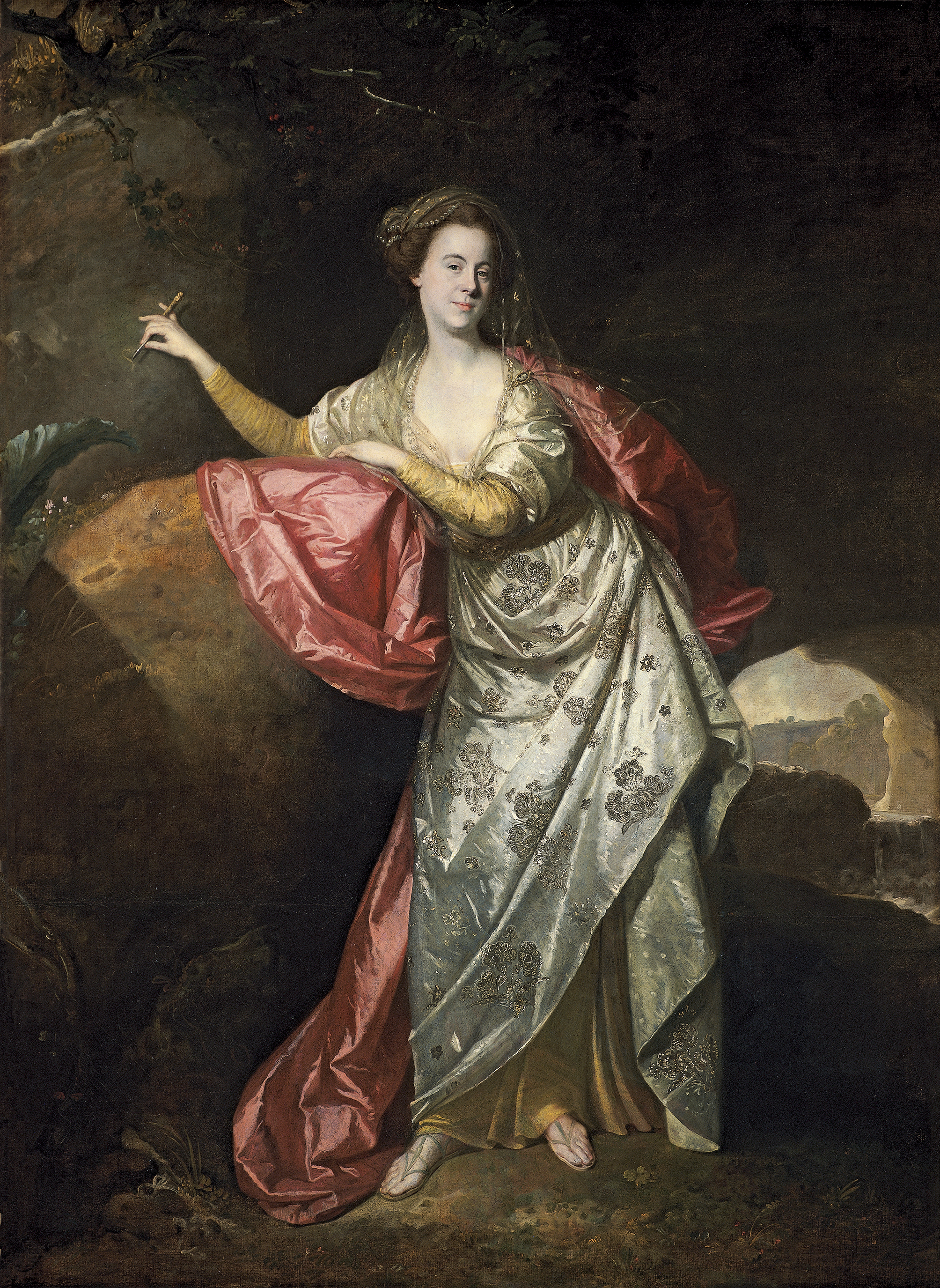 ZOFFANY, Johann_Retrato de Ann Brown en el papel de Miranda (?), 1770_ 444 (1977.76)